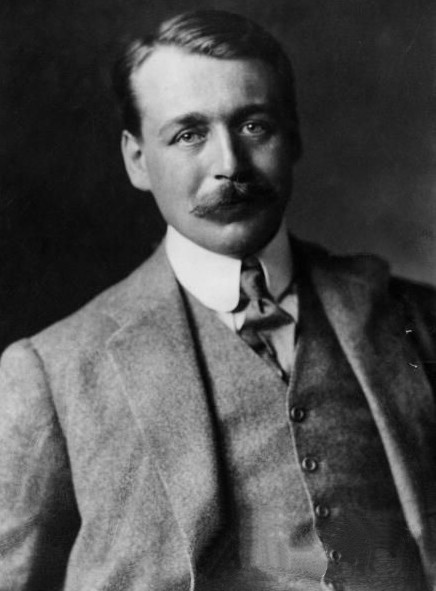 Sir Mark Sykes, 6th Baronet (1879-1919)